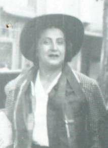 Bulgarian actress Petya Gerganova